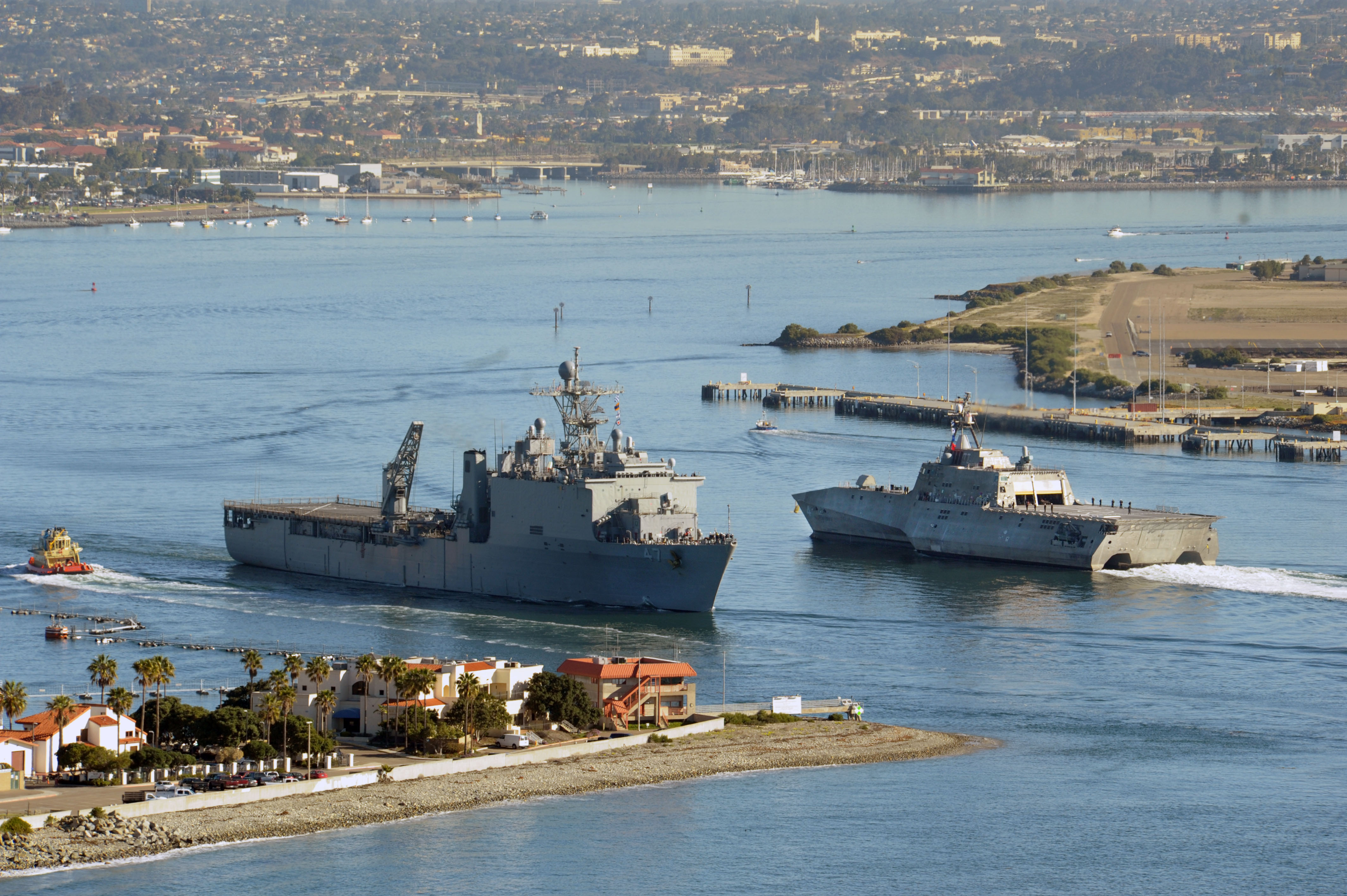 140310-N-SV210-059 SAN DIEGO (March 10, 2014) The littoral combat ship Pre-Commissioning Unit (PCU) Coronado (LCS 4) passes the amphibious dock landing ship USS Rushmore (LSD 47) as Coronado makes it way to its new homeport at Naval Base San Diego. Coronado is the third U.S. Navy ship named after Coronado, Calif., and is the second littoral combat ship of the Independence-class variant.